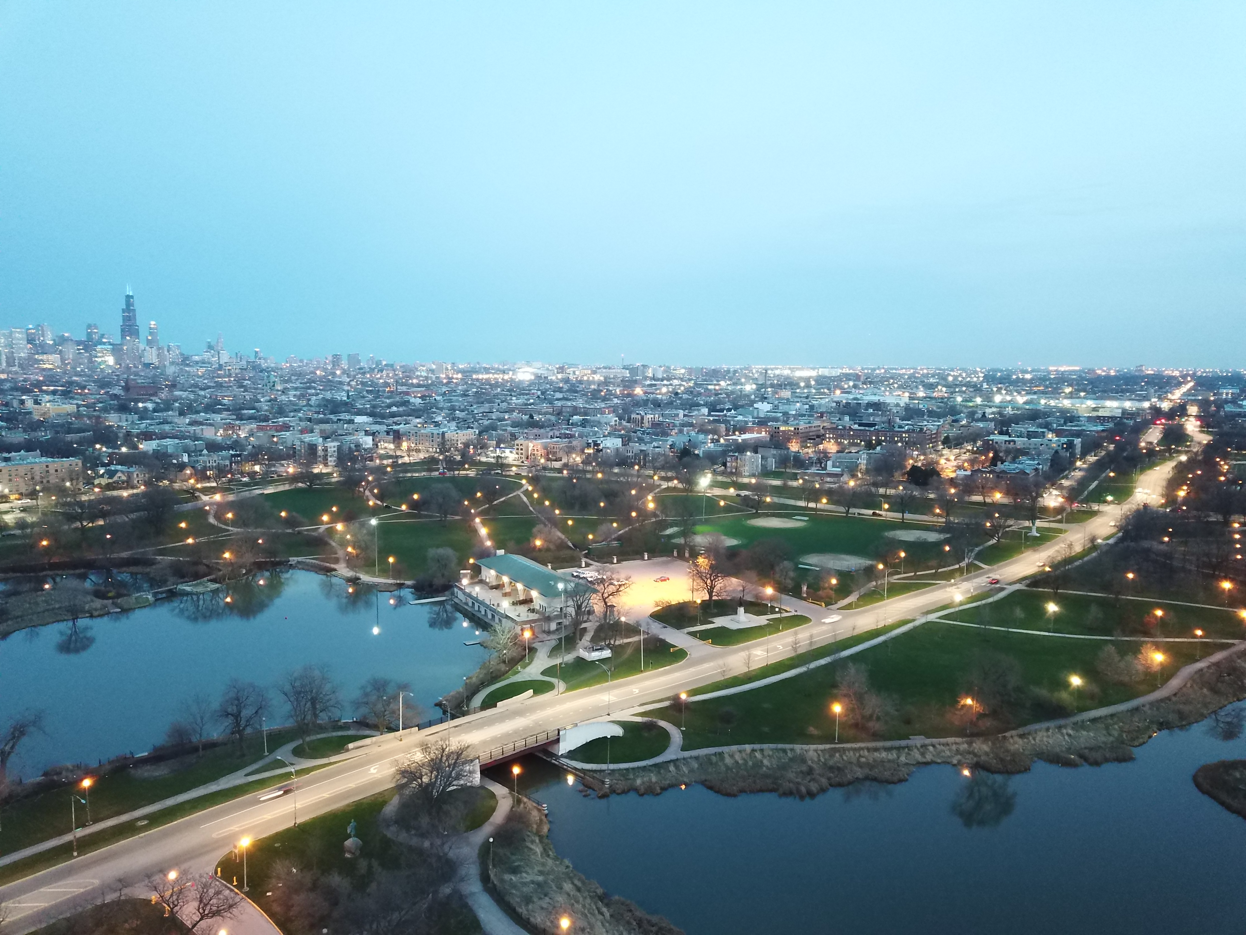 This is an aerial photo of Humboldt Park's Boathouse taken from a drone on April 20, 2020.